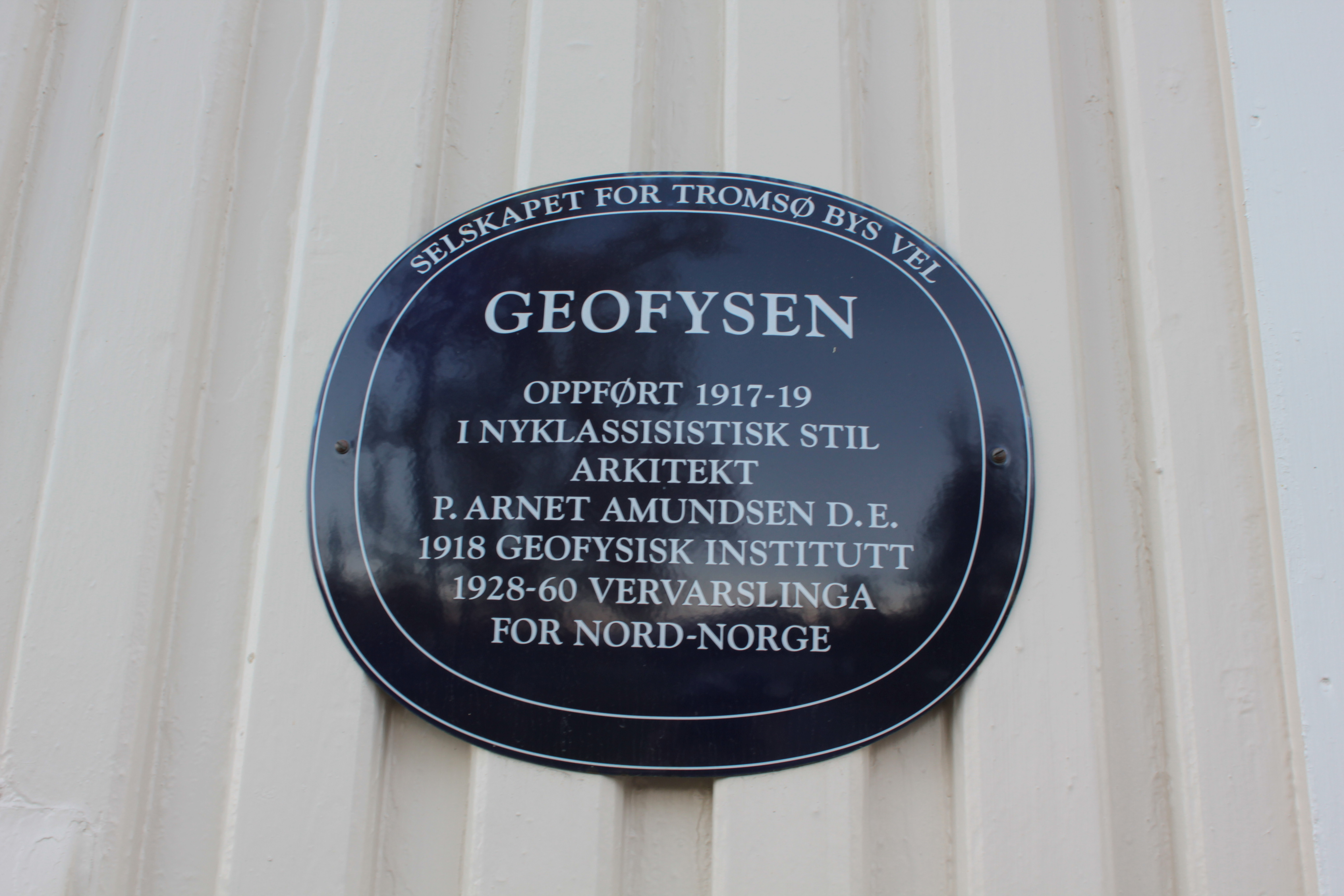 "Geofysen" (previously) metrology station in Tromsø Norway